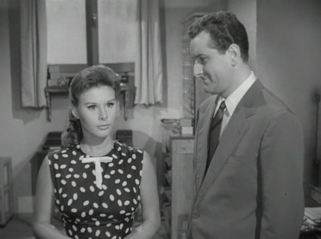 Screenshot from Belle ma povere (1957)